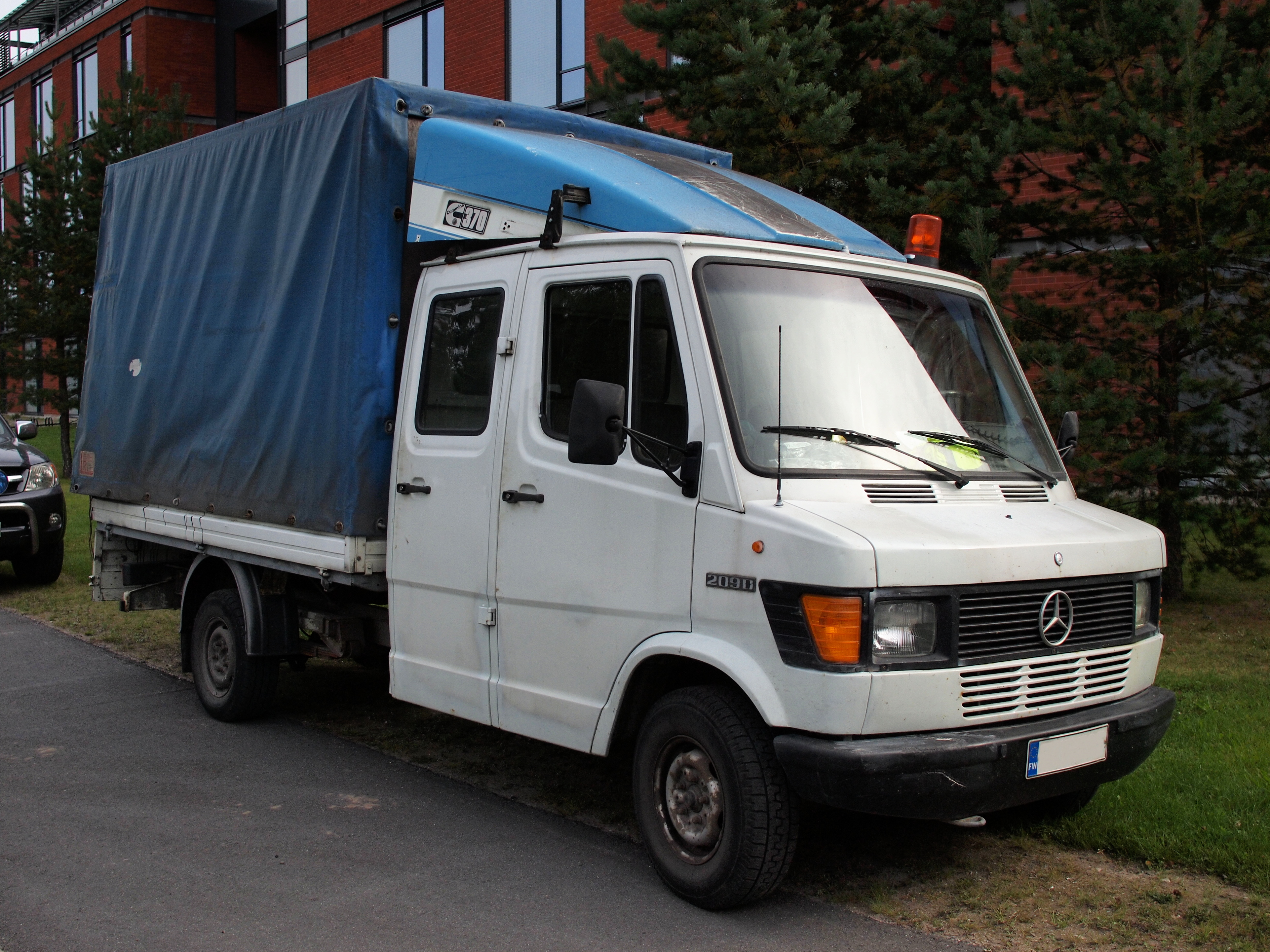 Mercedes-Benz 209D. This is the T1 van with "die Doppelkabine" or double cab. The cabin only has the rear door on its right side!